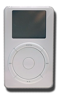 Lightmatter ipod 1G photo minus background.